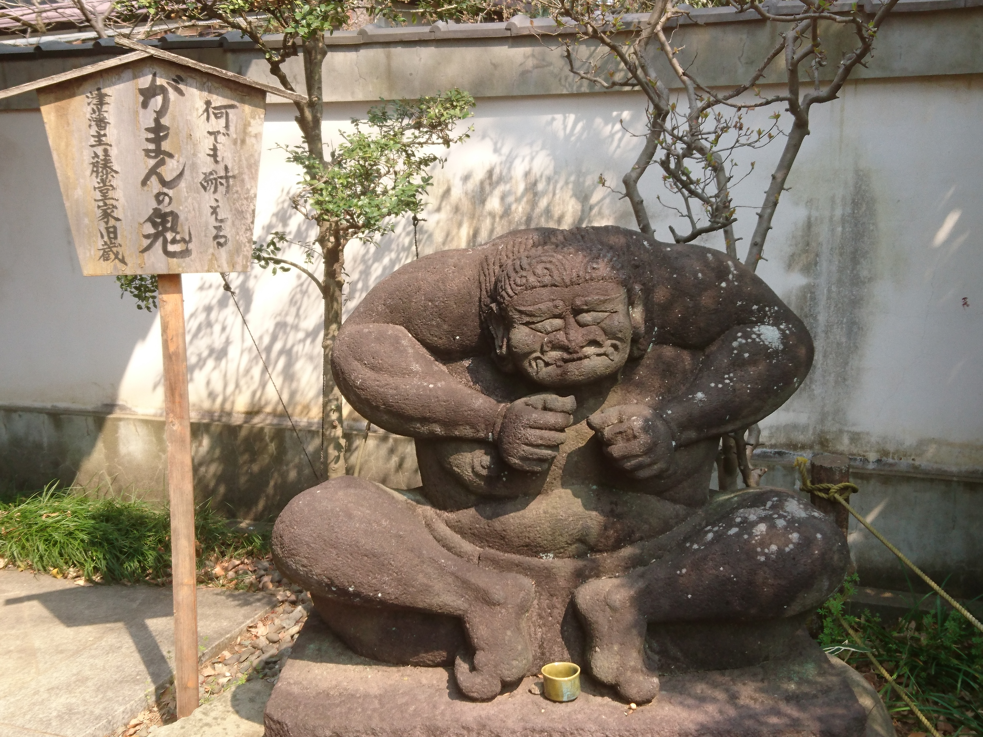 Statue of Gaman no Oni (Enduring oni) in Jyorenji